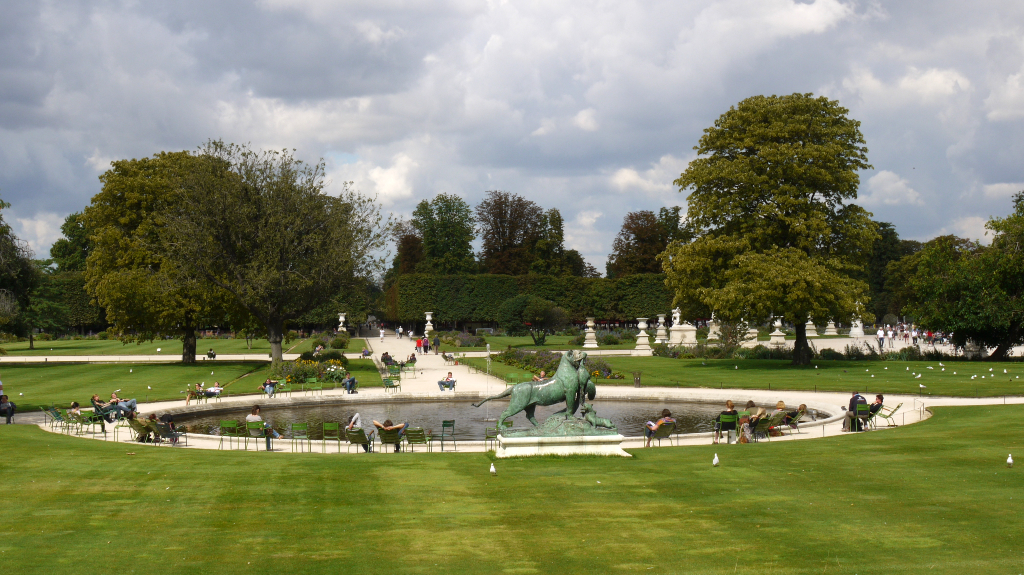 jardin des Tuileries, Paris, France